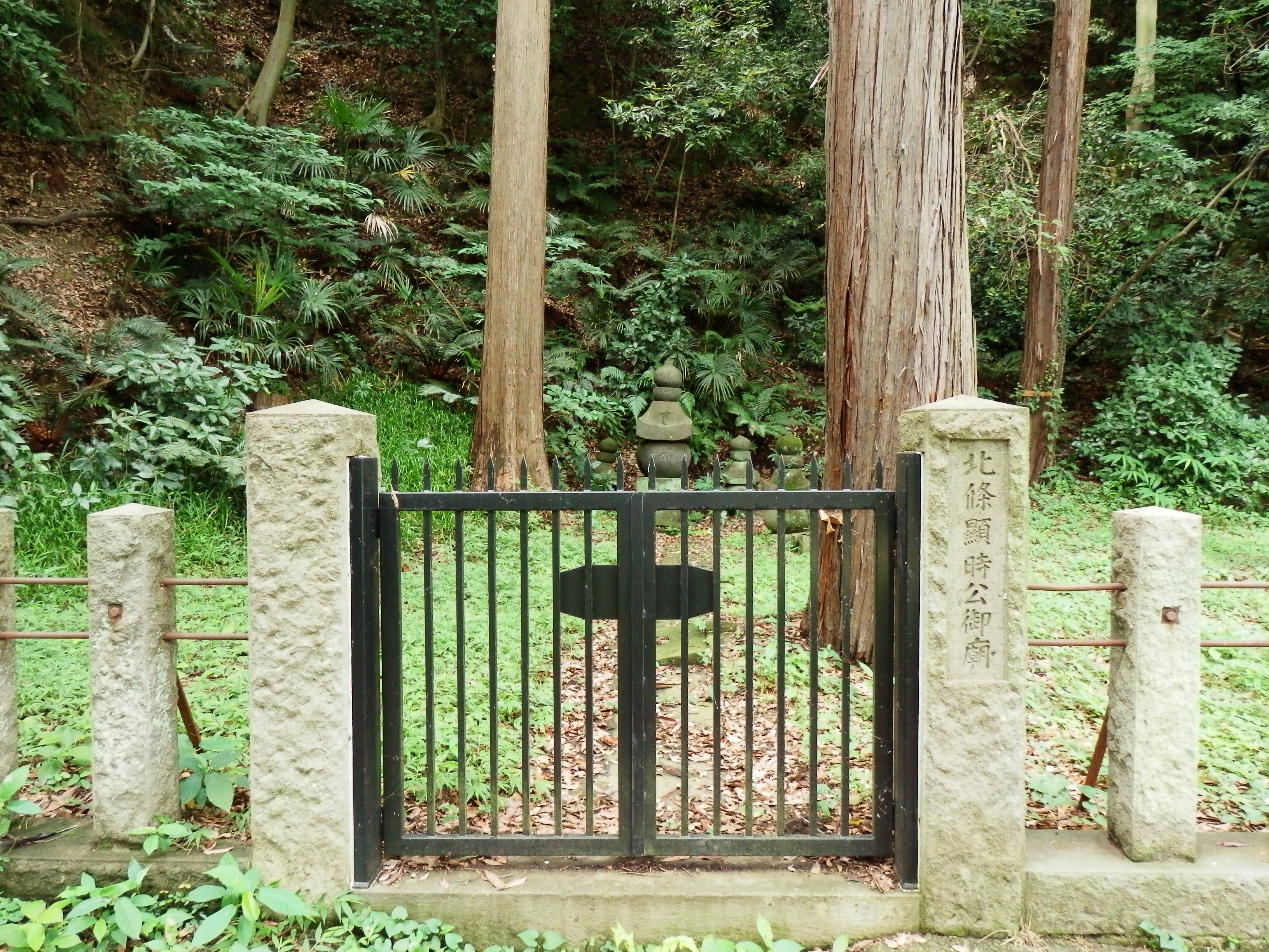 The tomb of Hōjō Akitoki, in Shōmyō-ji, Yokohama, Kanagawa, Japan